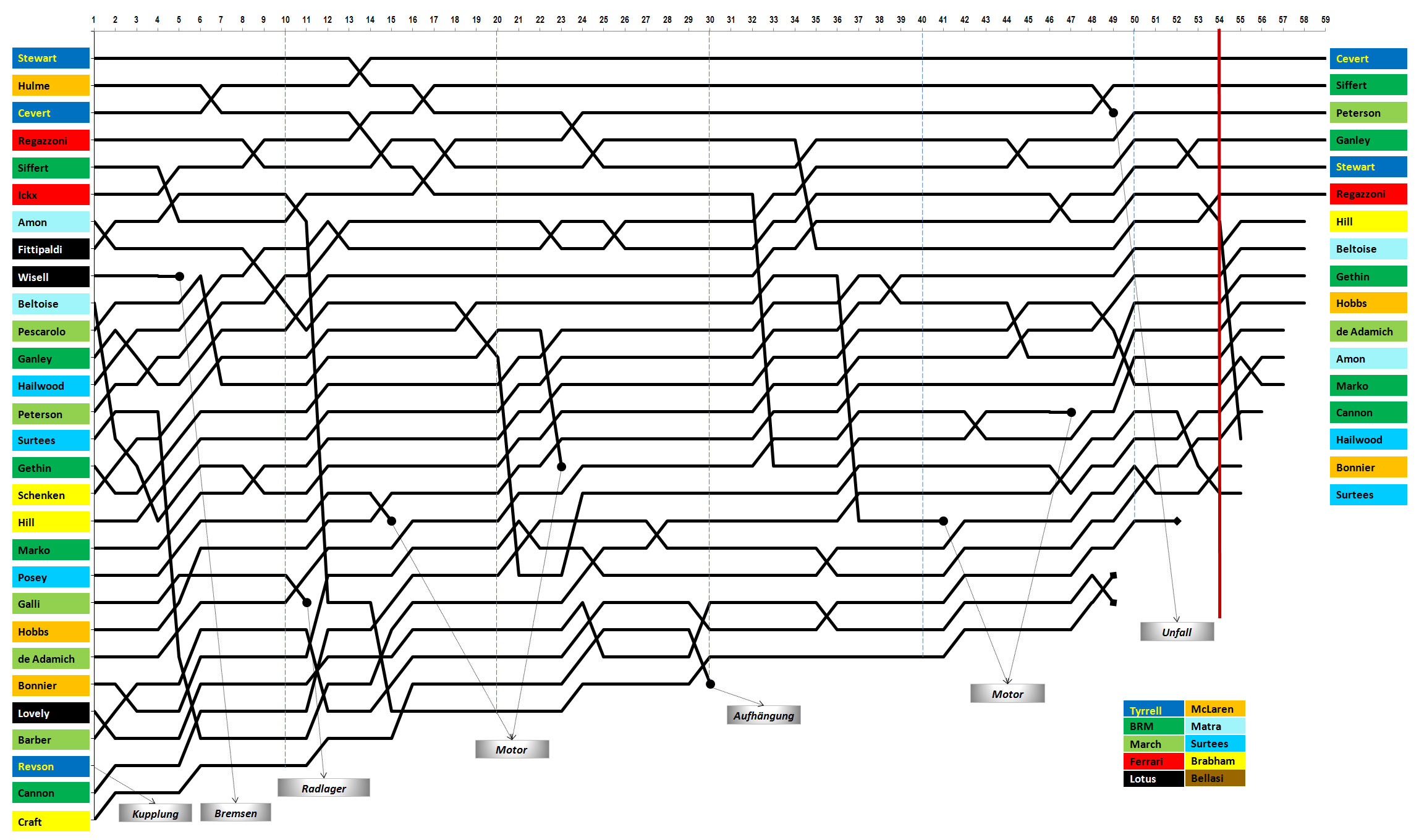 Round table american Grand prix 1971